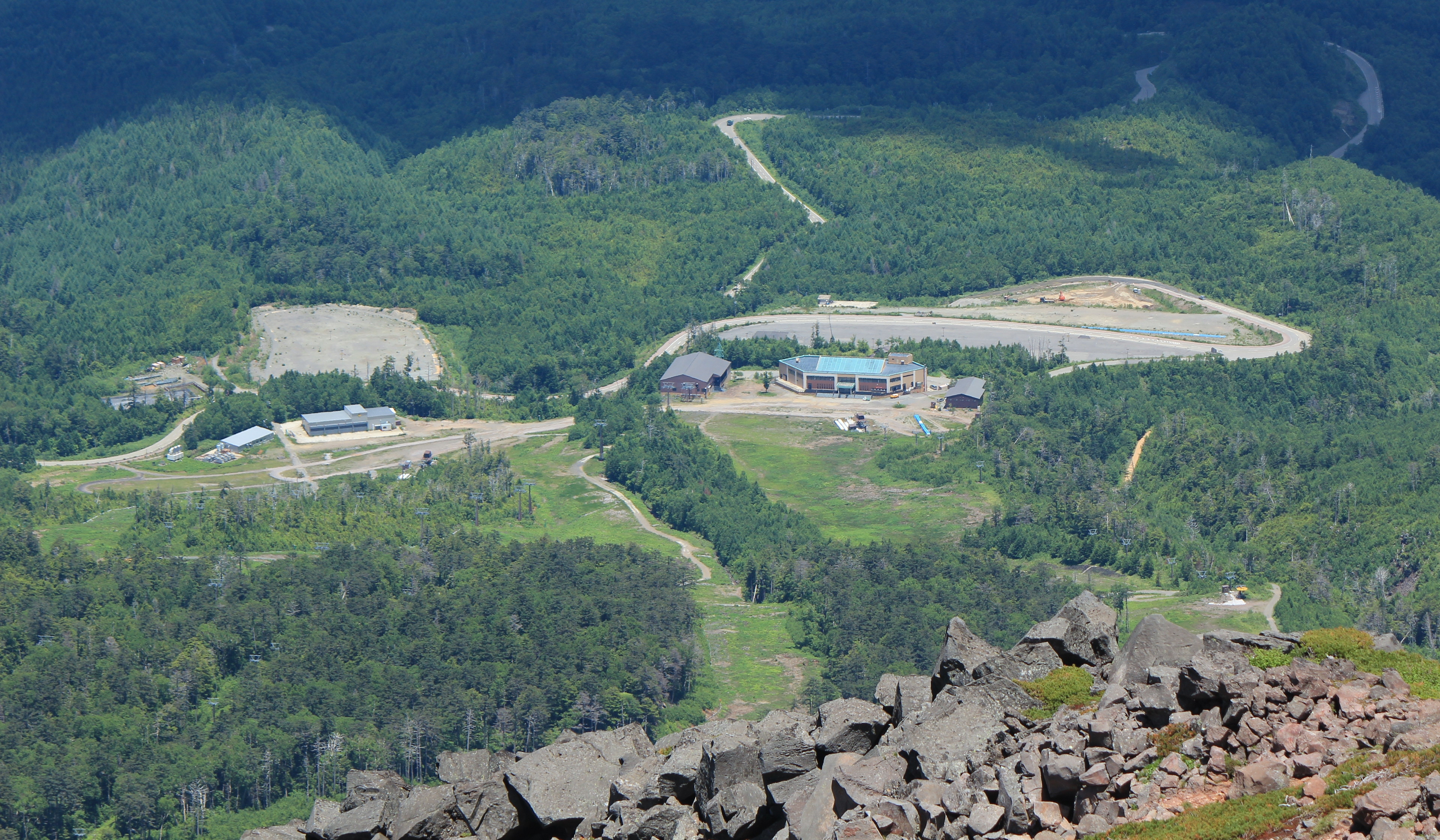 Ciao Ontake Snow Resort zoon of Hida Ontake highland High-altitude training area, seen from Mount Mamako of Mount Ontake in Gifu, prefcture, Japan.